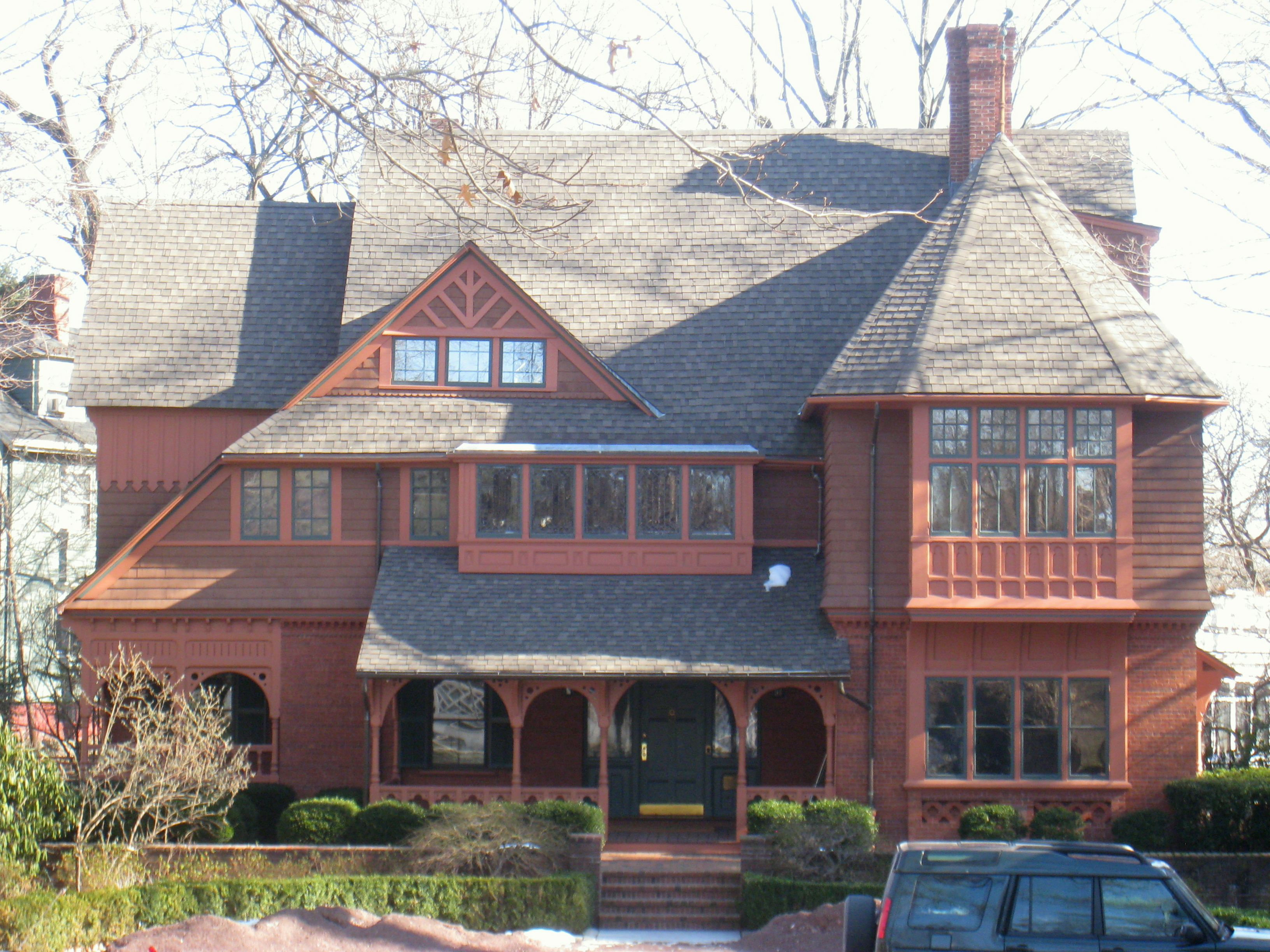 Edward Dodge House - 70 Sparks Street, Cambridge, Massachusetts, USA. This building is listed on the National Register of Historic Places.